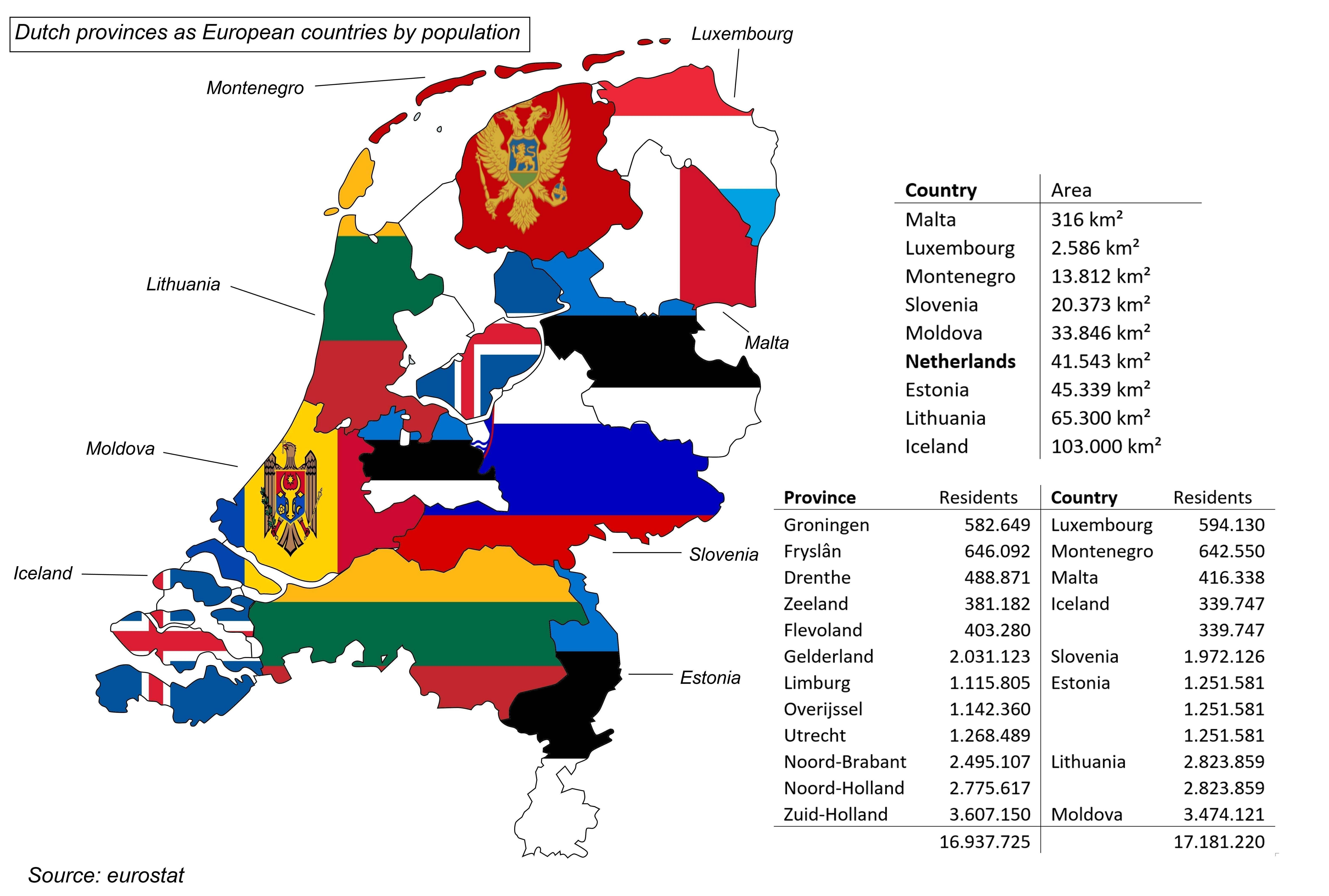 Dutch provinces as European countries by population